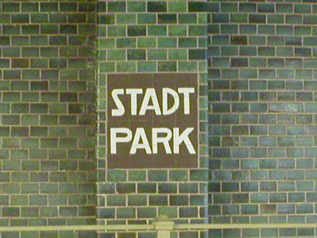 former name of Rathaus Schöneberg U-Bahn station, Berlin, Germany